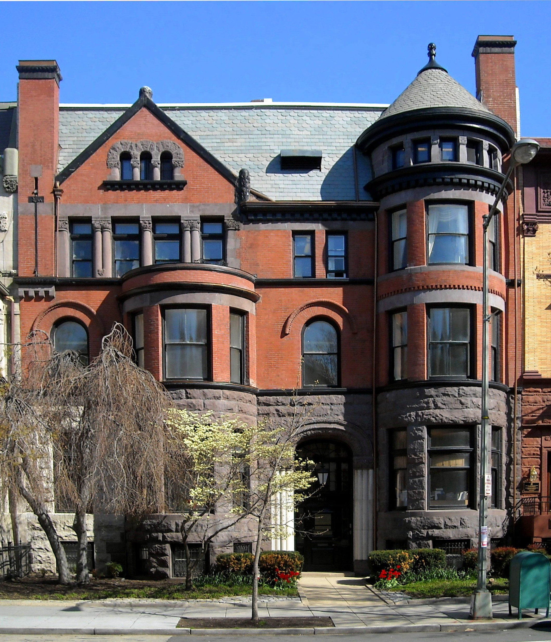 The American Political Science Association headquarters, Pi Sigma Alpha headquarters, and Phi Beta Delta Society Executive Office located at 1527 New Hampshire Avenue, NW in the Dupont Circle neighborhood of Washington The Richardsonian Romanesque building (originally two separate residences, 1527 and 1529, until the 1940s) was designed by noted architect Thomas Franklin Schneider in 1889. It's a contributing property to the Dupont Circle Historic District and valued at $7,075,800. Notable owners of the building (including those who occupied 1529) have included Benjamin West Blanchard (Colonel, General Traffic Manager of the Erie Railroad), government of Argentina (legation), Chenoweth Boarding School for Young Ladies (finishing school), George C. Remey (Mason Remey lived there as well), Samuel Gompers, Carter Glass, government of Ecuador (legation), government of Britain (office of the air attaché), American War Mothers (national headquarters), Harry Augustus Garfield, and the Association of Research Libraries (headquarters).